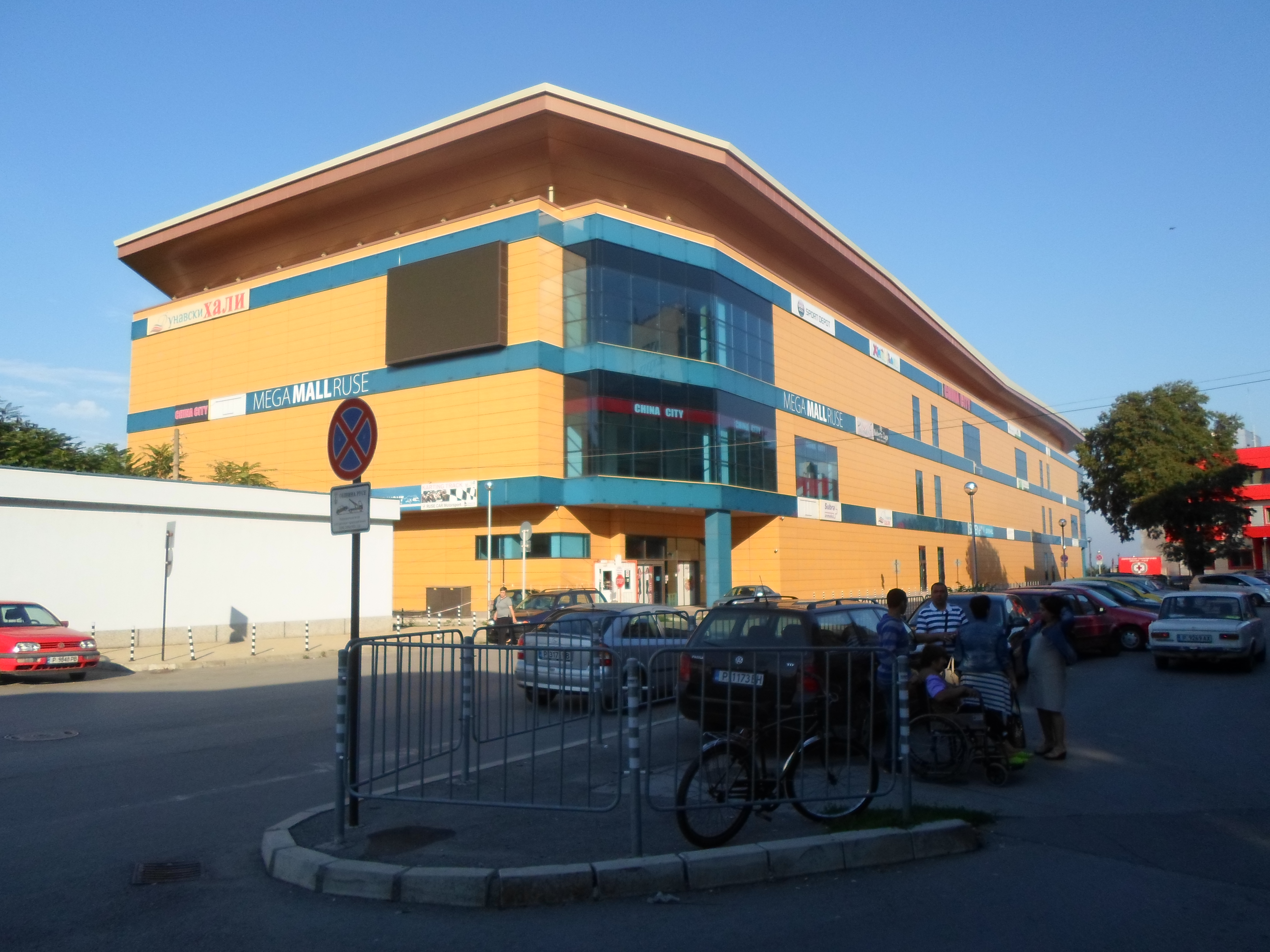 A mall in Ruse, Bulgaria, that is now defunct. Used to be a charming place, though there were not many stores.